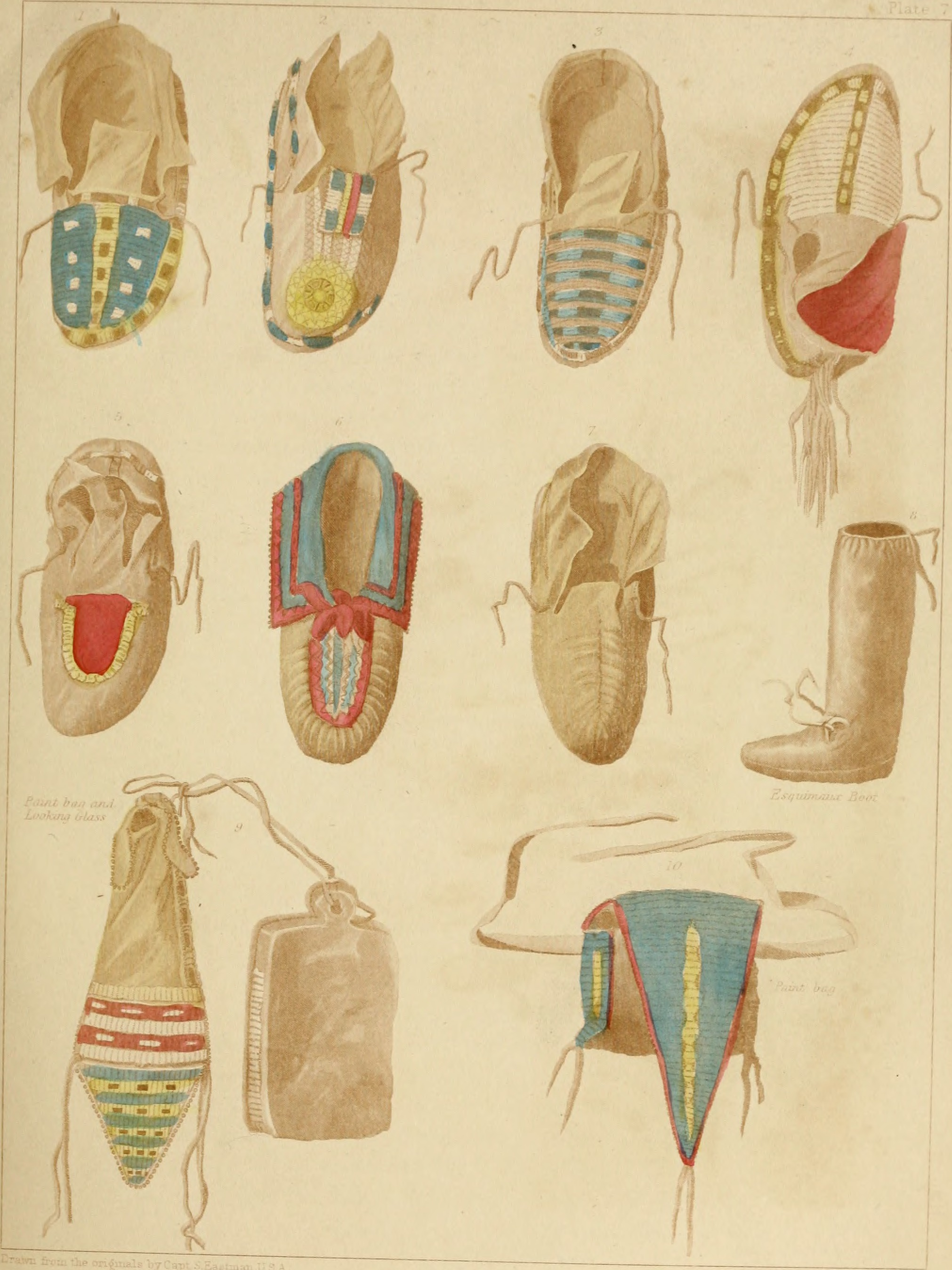 Title: Archives of aboriginal knowledge. Containing all the original paper laid before Congress respecting the history, antiquities, language, ethnology, pictography, rites, superstitions, and mythology, of the Indian tribes of the United States Year: 1860 (1860s) Authors: Schoolcraft, Henry Rowe, 1793-1864. dn United States. Bureau of Indian Affairs. cn Subjects: Indians of North America United States Publisher: Philadelphia, J. B. Lippincott & co. Text Appearing Before Image: ' Text Appearing After Image: MANNERS AND CUSTOMS. 65 D. COSTUME. 20. Throughout the plains and level forests of the tropical and southern latitudesof North America, the Indian wears little or no clothing, during a large part of theyear. But it is different on the eminences elevated thousands of feet above thesea; and also very different as the observer extends his views over the temperatezone. Nudity, where it is asserted of tribes within the present area of the United States,as is done by De Bry, of the Virginia Indians, implied generally uncovered limbsand body. But it permitted the azian or loin-cloth, a necklace of shells, claws, orwampum; feathers on the head, and armlets, as well as ear and nose jewels. ThePowhatanese woman had, if nothing else, a short fringed kirtle of buck-skin; thebust was nude, but this was doubtless only the summer costume. But even in summer, the northern Indians were less scantily clothed. The skinsof beasts were adapted to every purpose of garment, and the severity of winter waswar